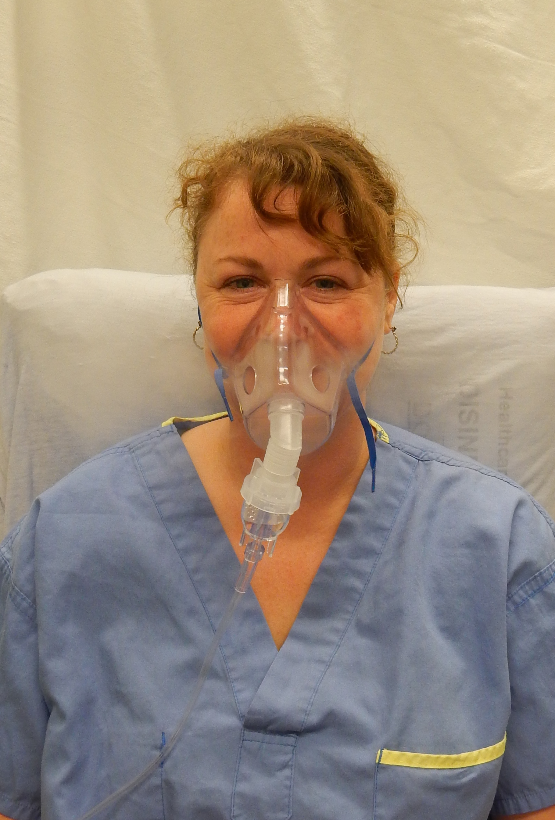 A nebulizer mask